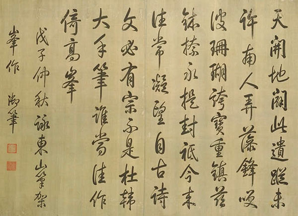 calligraphy of Qianlong